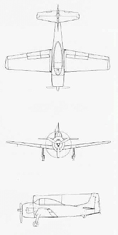 3-side dawing of the North American XSN2J-1 Texan II. The NAA model NA-142 was developed during the Second World War for the U.S. Navy as an advanced trainer to replace the highly successful SNJ (T-6 Texan). The first of two XSN2J-1 (BuNos 121449-121450) flew in February 1947. The development was not proceeded, but it led dirctly to the T-28 Trojan trainer.